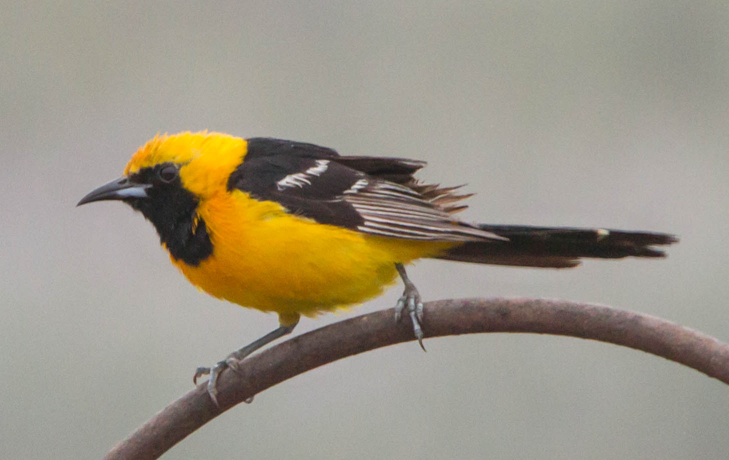 ...my first ever in the yard!